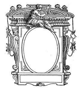 Illustratio from "Le Vite" by Giorgio Vasari, edition of 1568. For the artist portrayed see filename